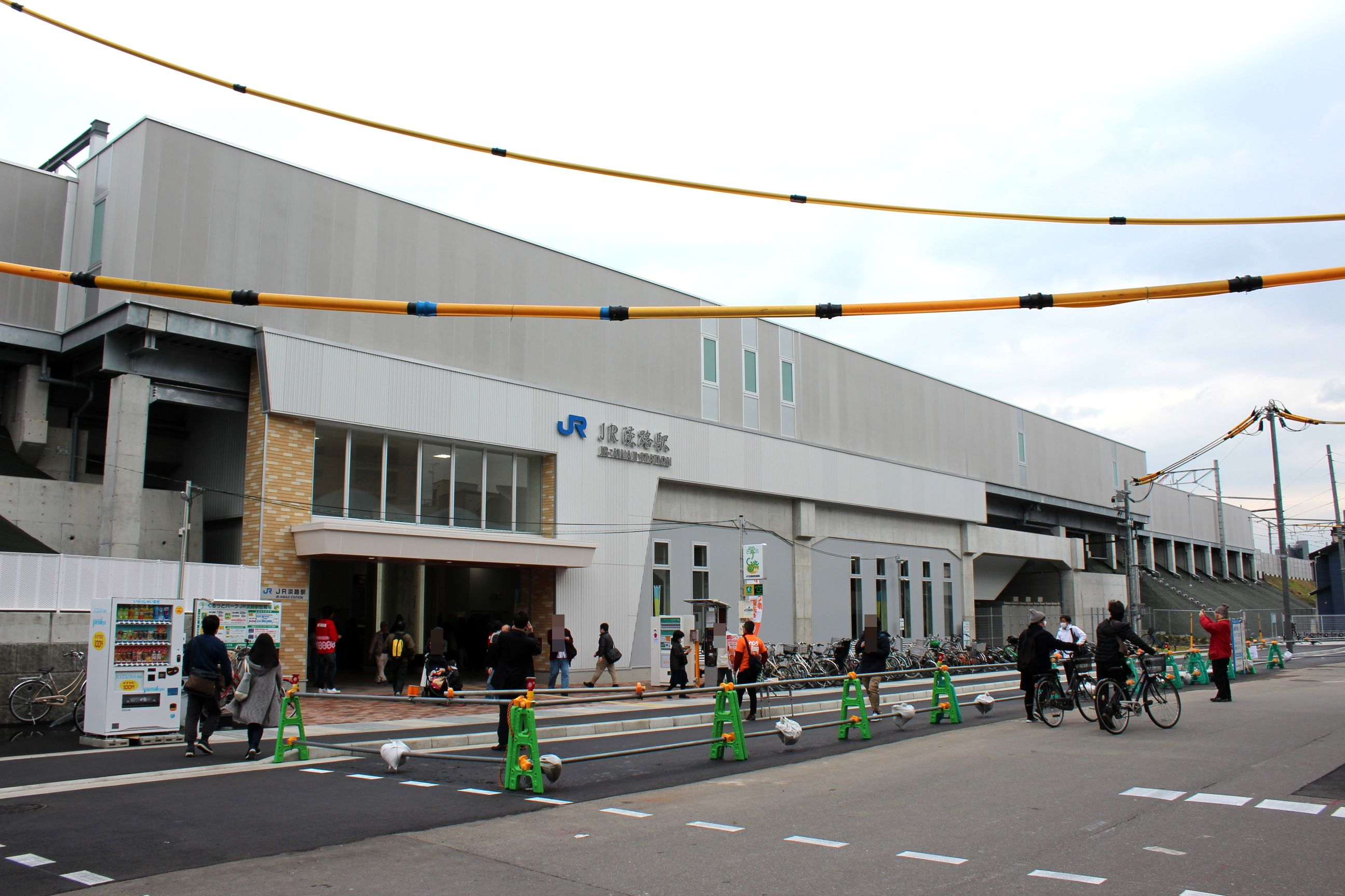 JR淡路駅 Canon EOS Kiss X5